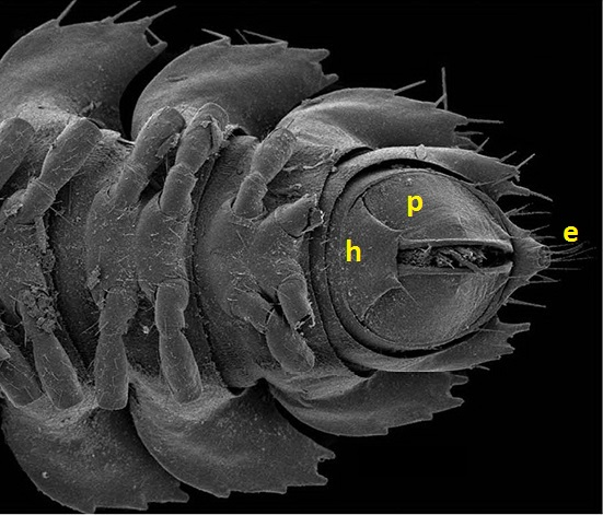 Ventral view of the telson (rear end) of the millipede Retrodesmus cavernicola (Polydesmida, Opisotretidae). The posterior legs are broken and incomplete. e: epiproct h: hypoproct (subanal scale) p: paraproct (anal valve)